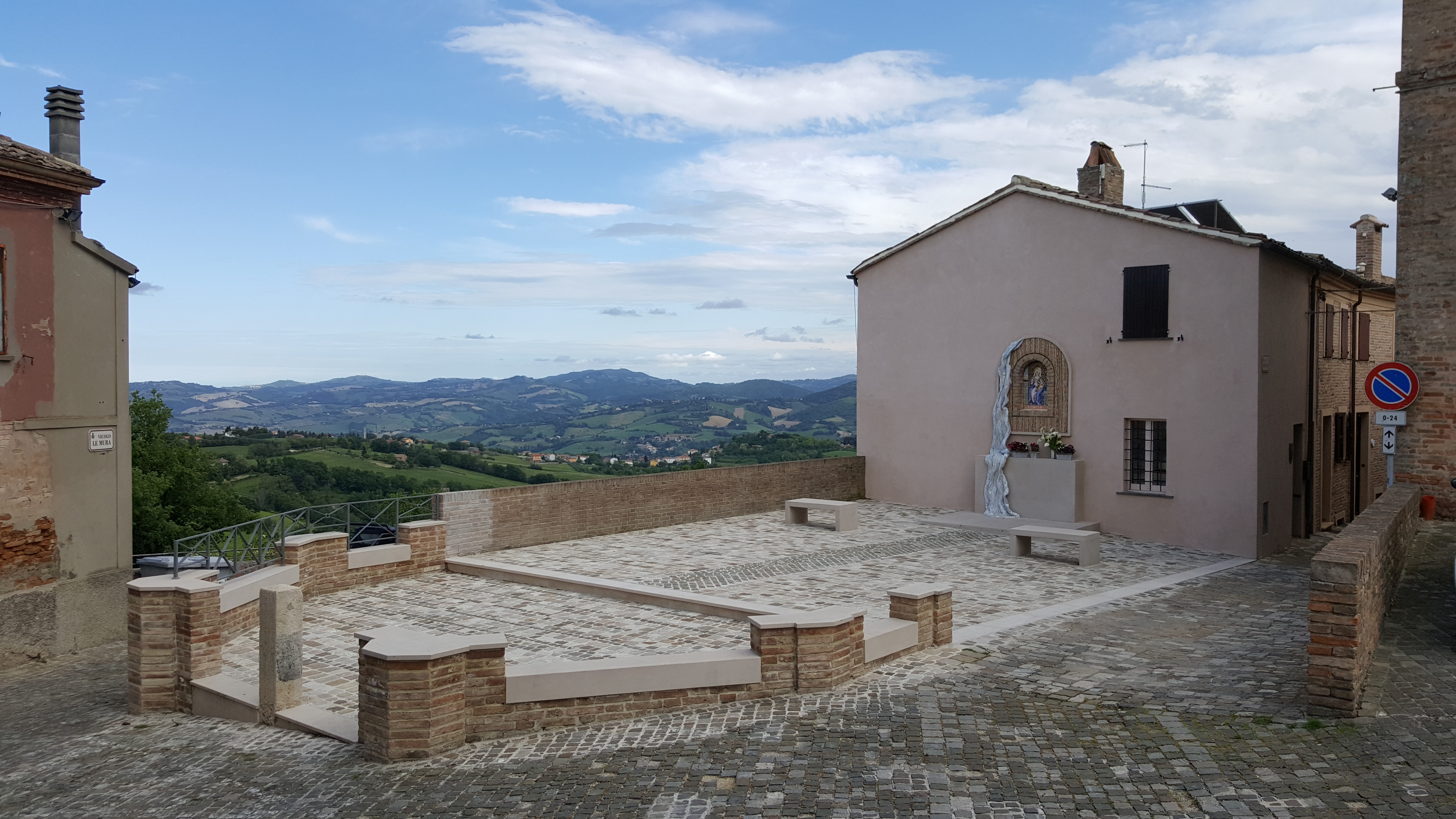 This is a photo of a monument which is part of cultural heritage of Italy.